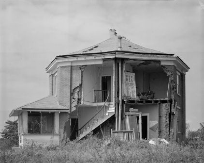 "Henry L. Russell House, Route 6, West Grove Township, Bloomfield vicinity, Davis County, IA", Historic American Buildings Survey , cropped to remove border, 2008